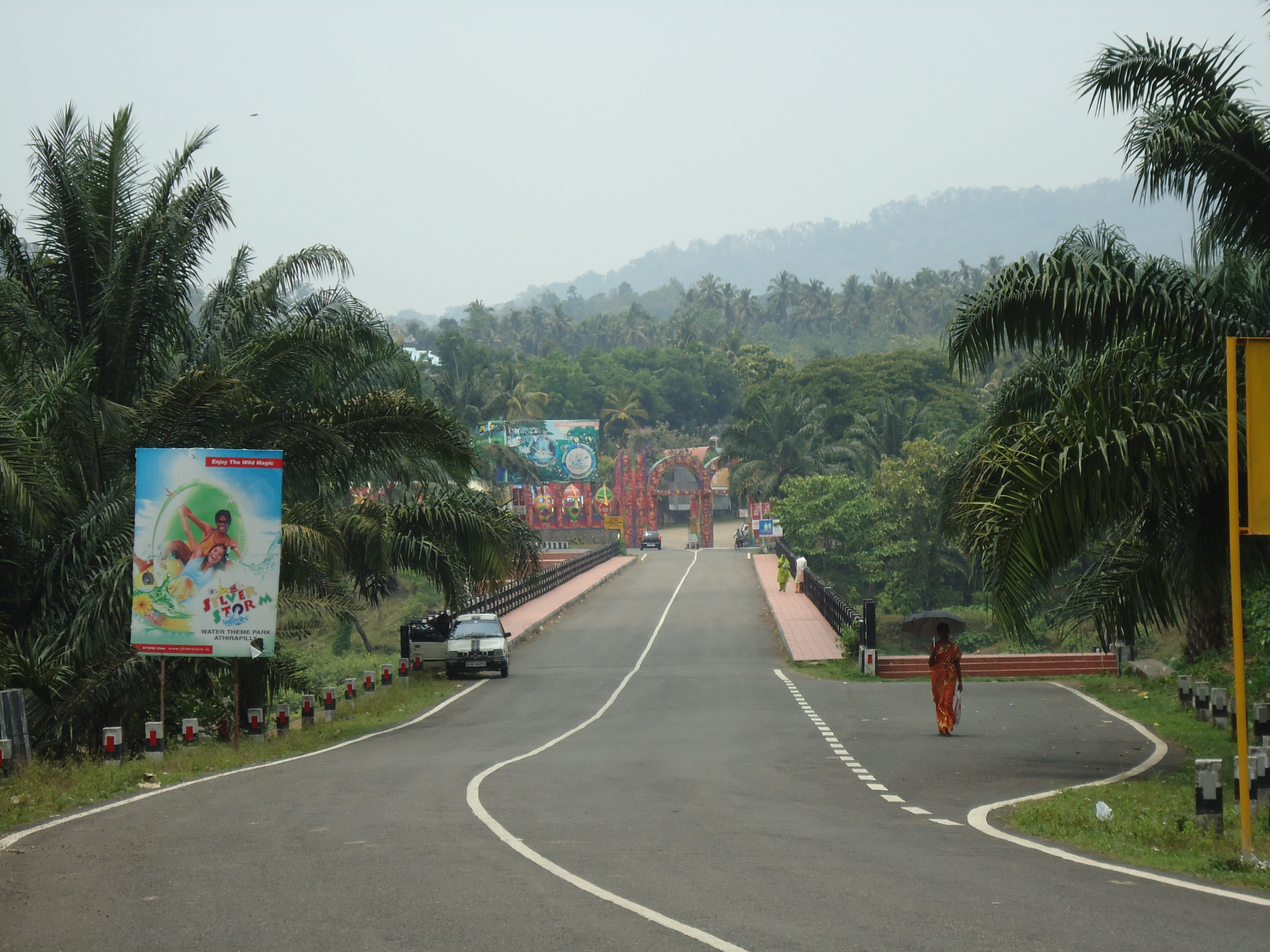 Vettilappara bridge build across chalakkudy river